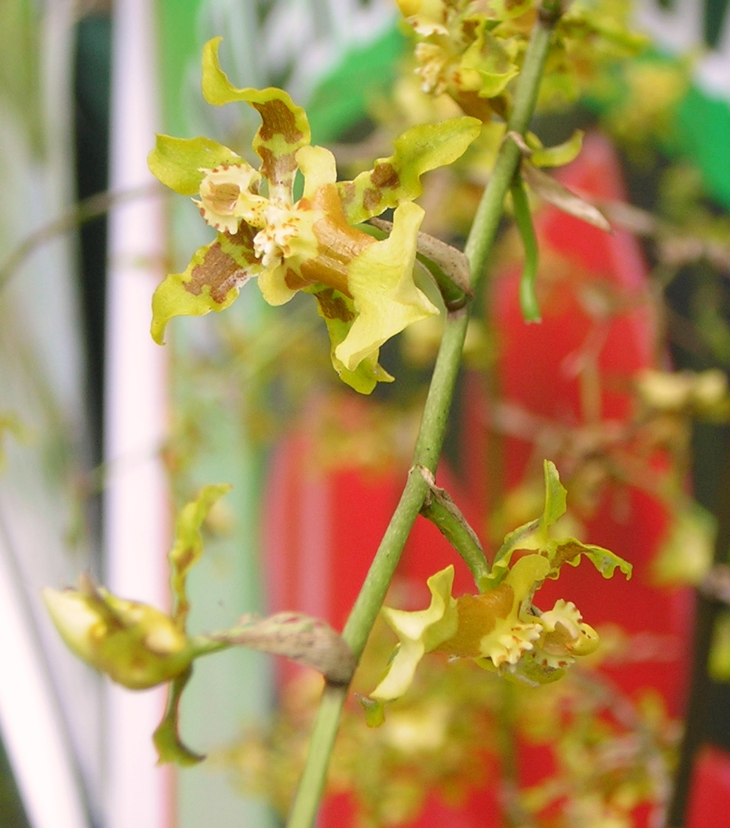 Oncidium baueri - flower